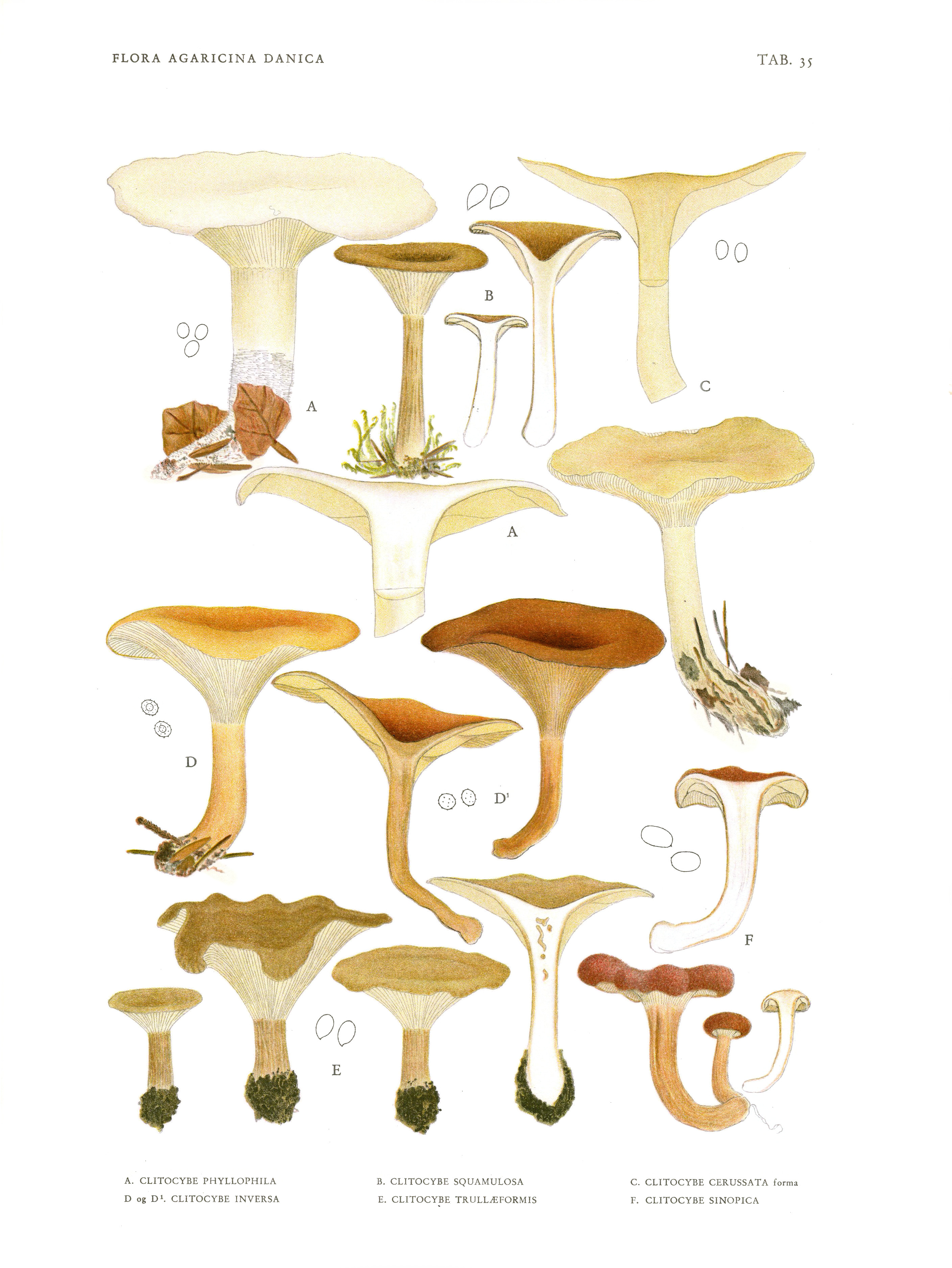 Jakob E. Lange: Flora agaricina Danica. Vol. 1; TAB. 35 A. Clitocybe phyllophila B. Clitocybe squamulosa C. Clitocybe phyllophila as Clitocybe cerussata forma D. Lepista flaccida as Clitocybe inversa E. Clitocybe trullaeformis F. Clitocybe sinopica